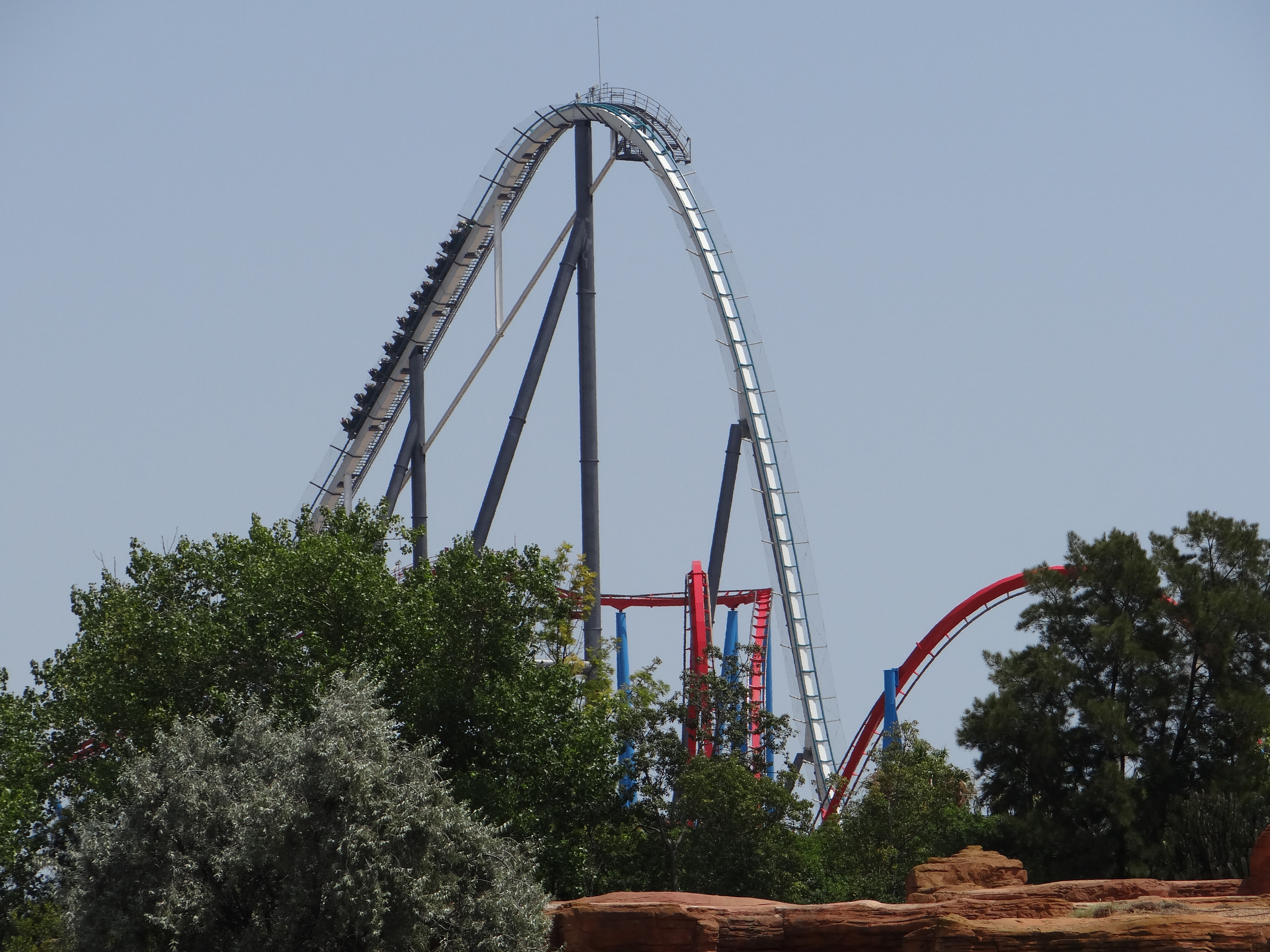 View of Shambhala from the entrance.